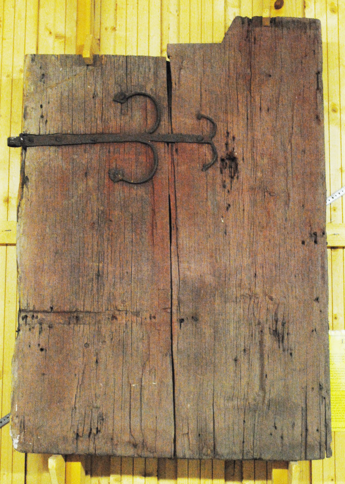 Door from about AD 1420 from Grytänge, now in Grangärde Hembygdsgård (Grangärde local heritage museum)